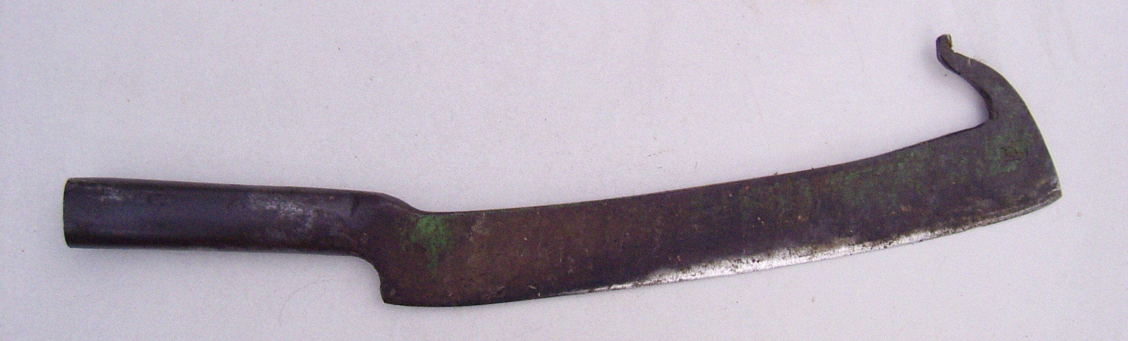 Daxkrai - tool